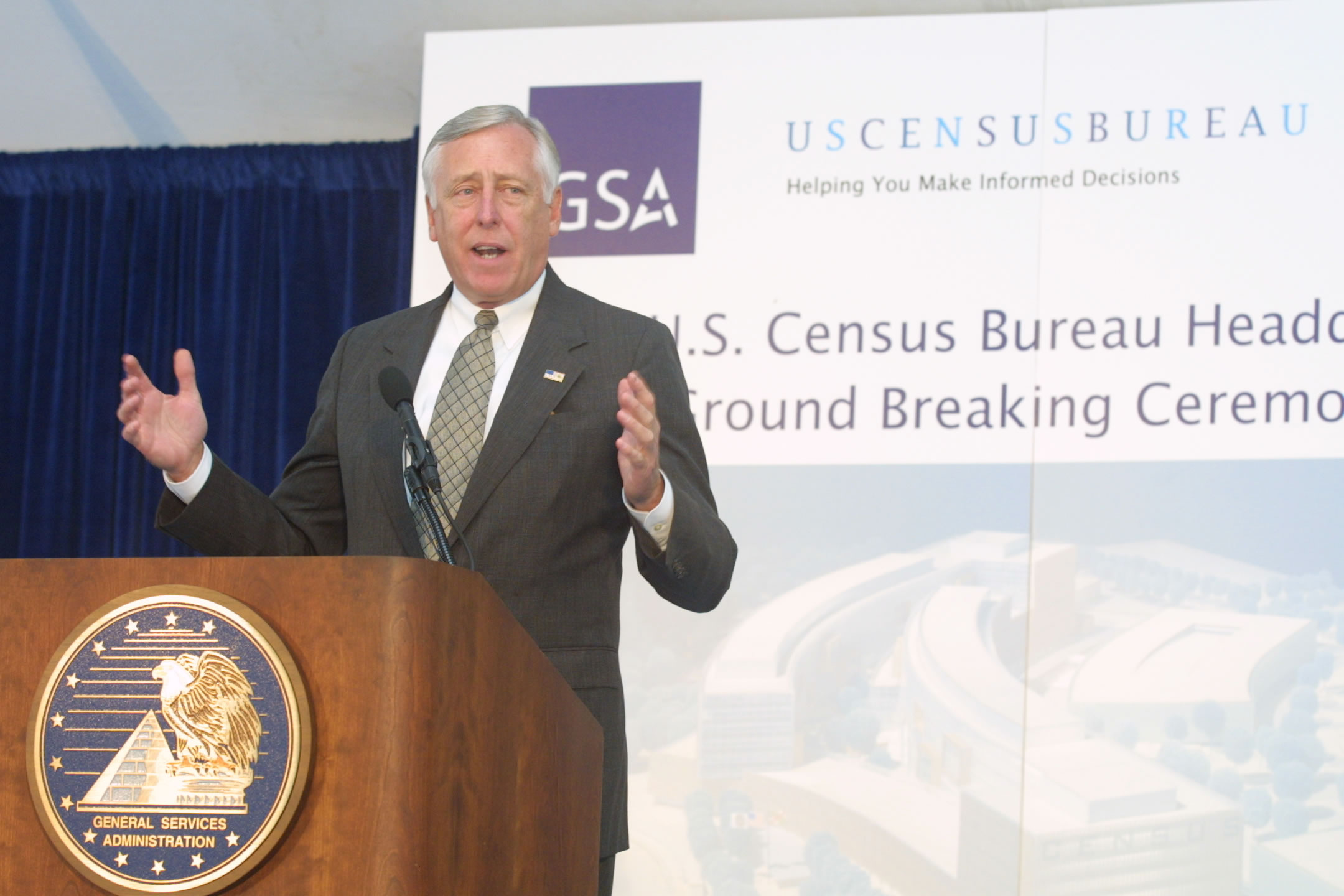 SUITLAND, Md. — U.S. Rep. Steny Hoyer, D-Md., describes growing up in the Suitland area and attending Suitland High School at the groundbreaking ceremony for the new Census Bureau headquarters complex, Sept. 16, 2003. Photo by Martin Lueders for the U.S. Census Bureau.